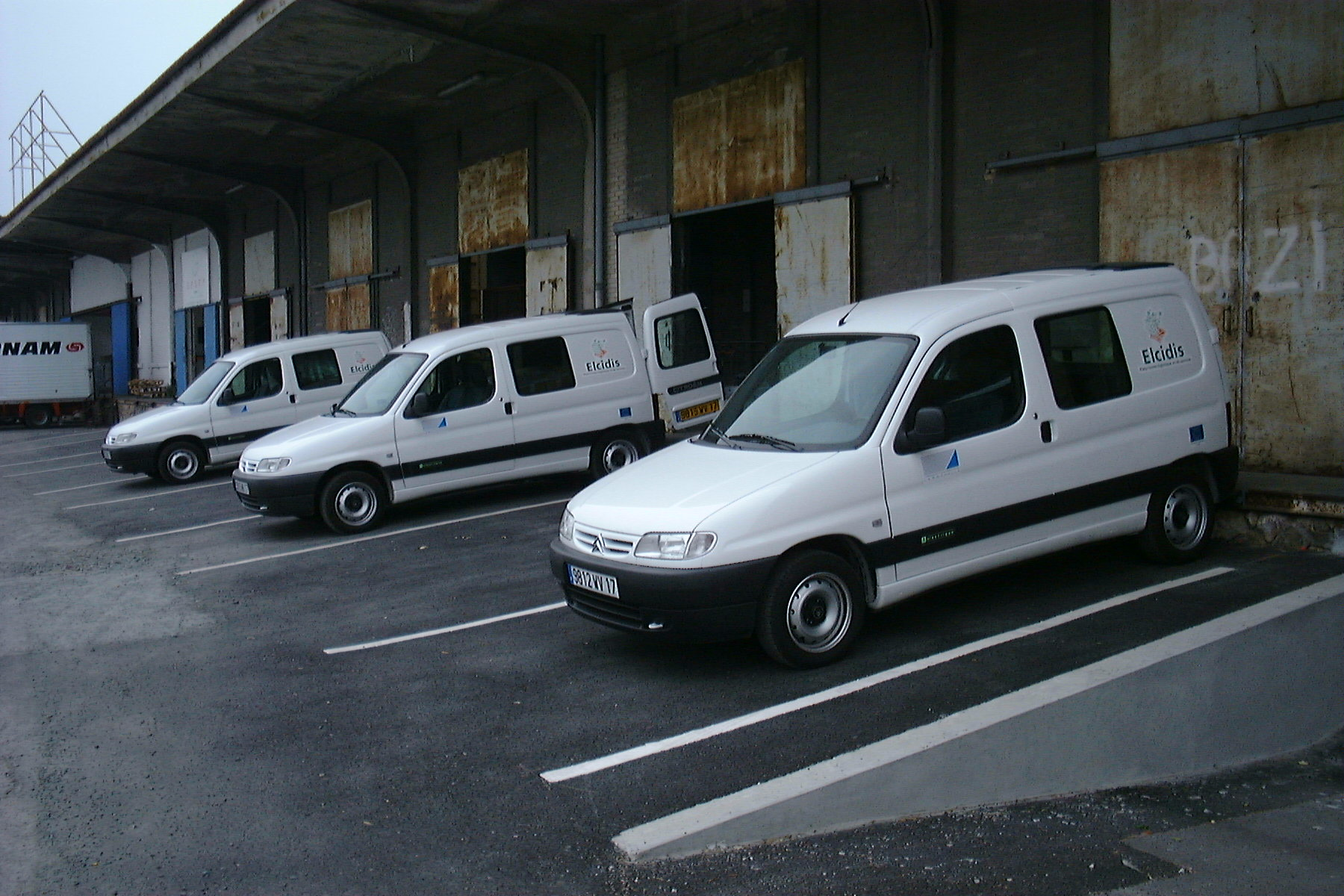 Electric vans of the ELCIDIS goods distribution service in La Rochelle, France (Photo: LHOON)